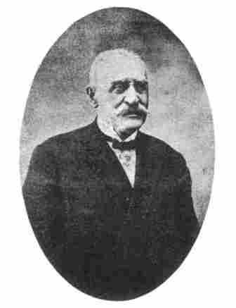 Photo of chessplayer Carlo Salvioli.